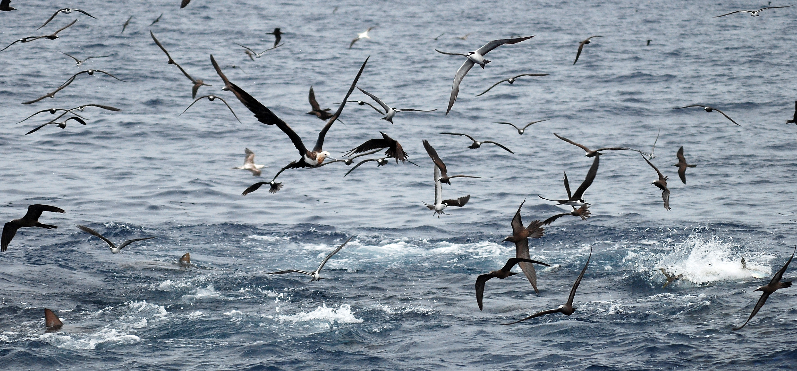 Millions of seabirds of over 19 different species forage in the waters of the Pacific Remote Islands Marine National Monument. . These millions of seabirds also raise their young on the island and atoll refuges. Photo credit: Kydd Pollock